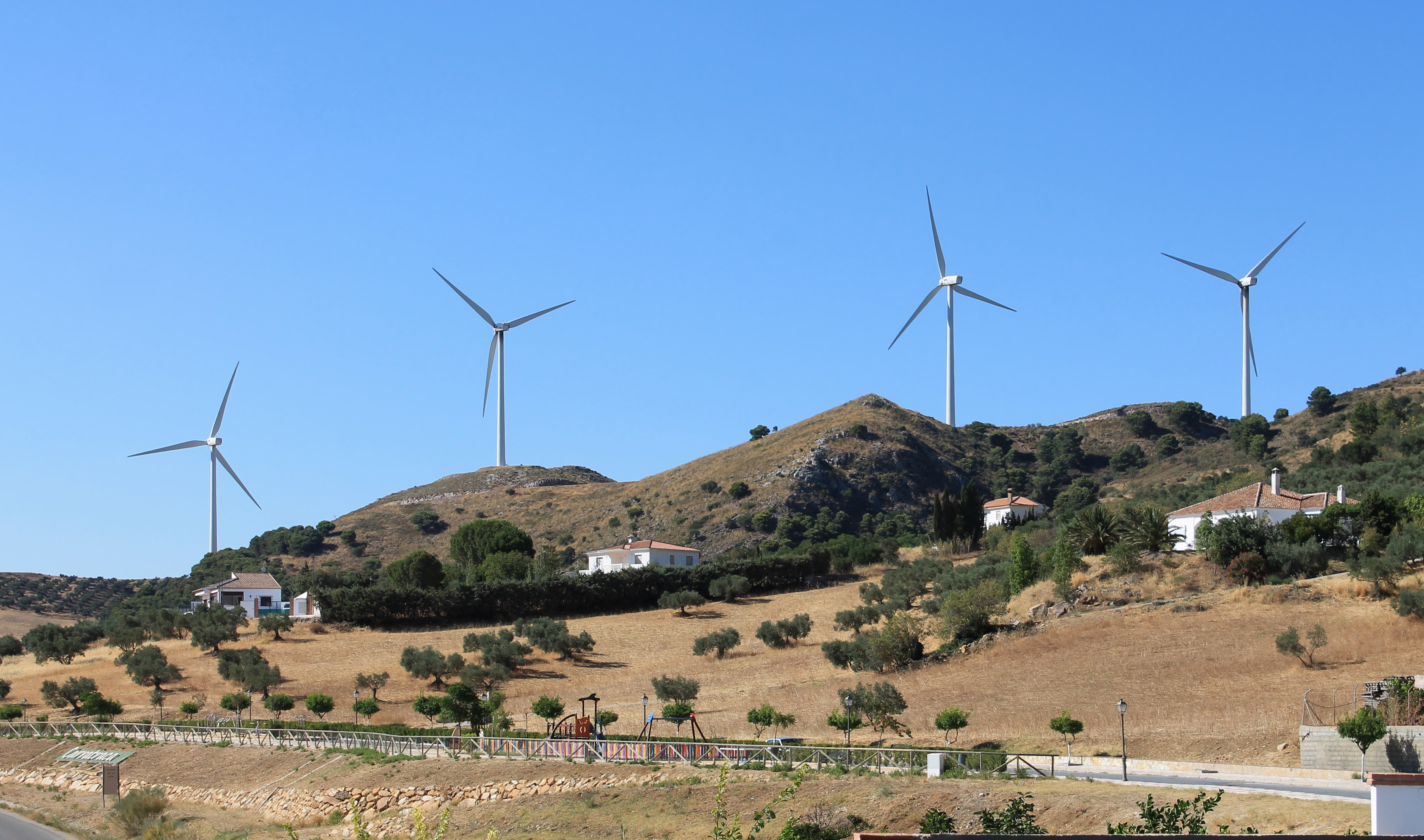 A windfarm at Sierra de Baños (a mountain range) in the Province of Málaga (Andalusia, Spain). Wind turbines Gamesa G87.